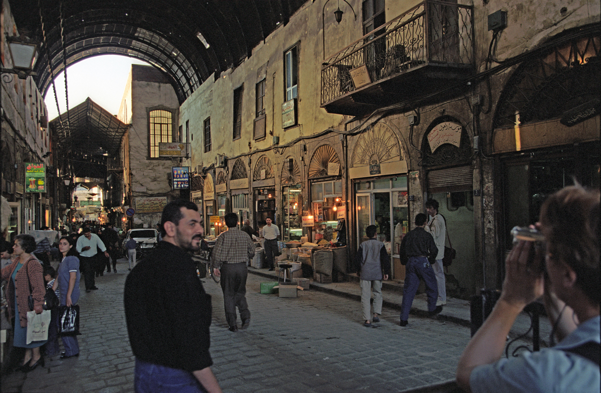 Damascus, Souk Al Bzouriyeh